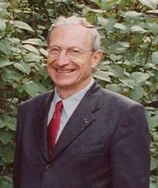 Dutch medievalist Wim Blockmans at NIAS Wassenaar 2002